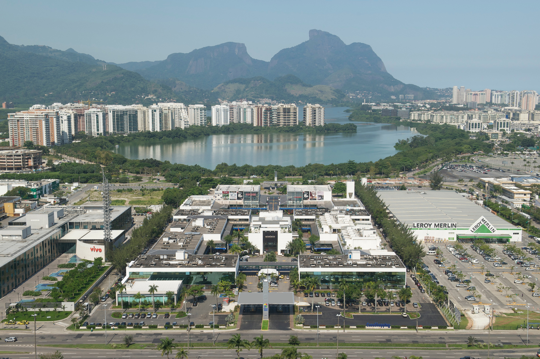 Over View of CasaShopping in Rio de Janeiro